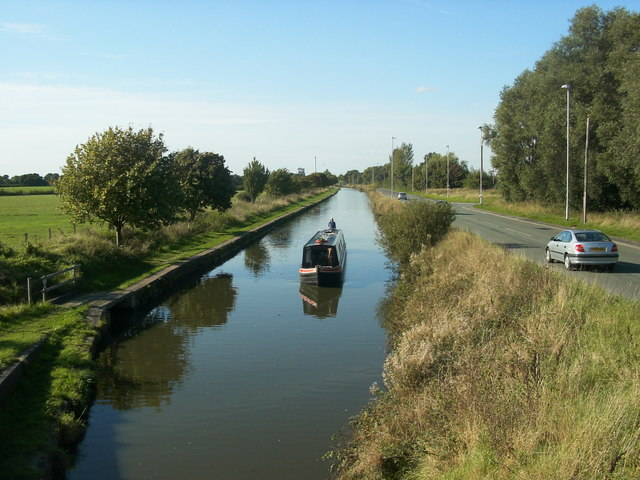 Leaving Middlewich on the Trent & Mersey Canal